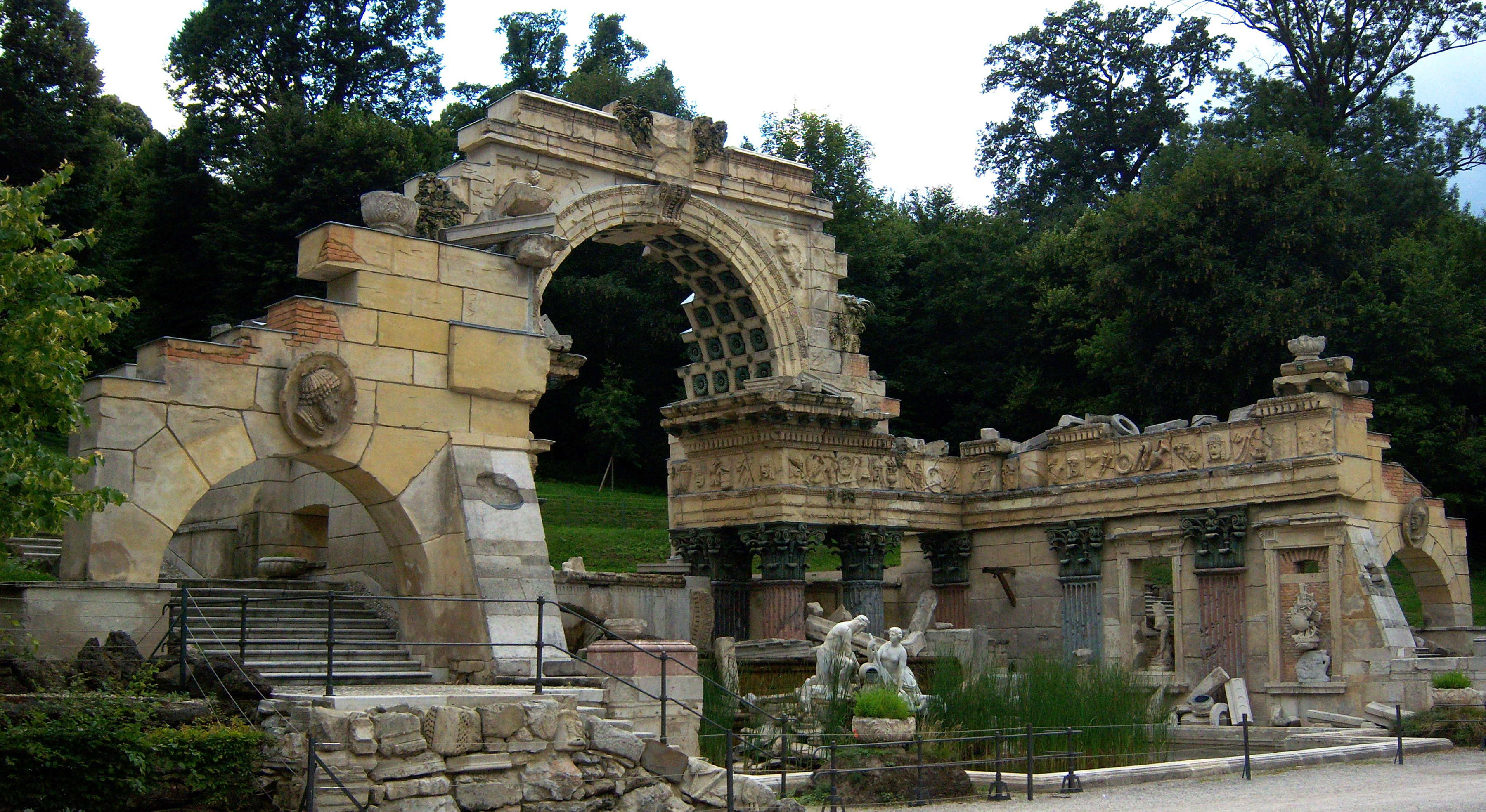 Roman Ruins at Schönbrunn